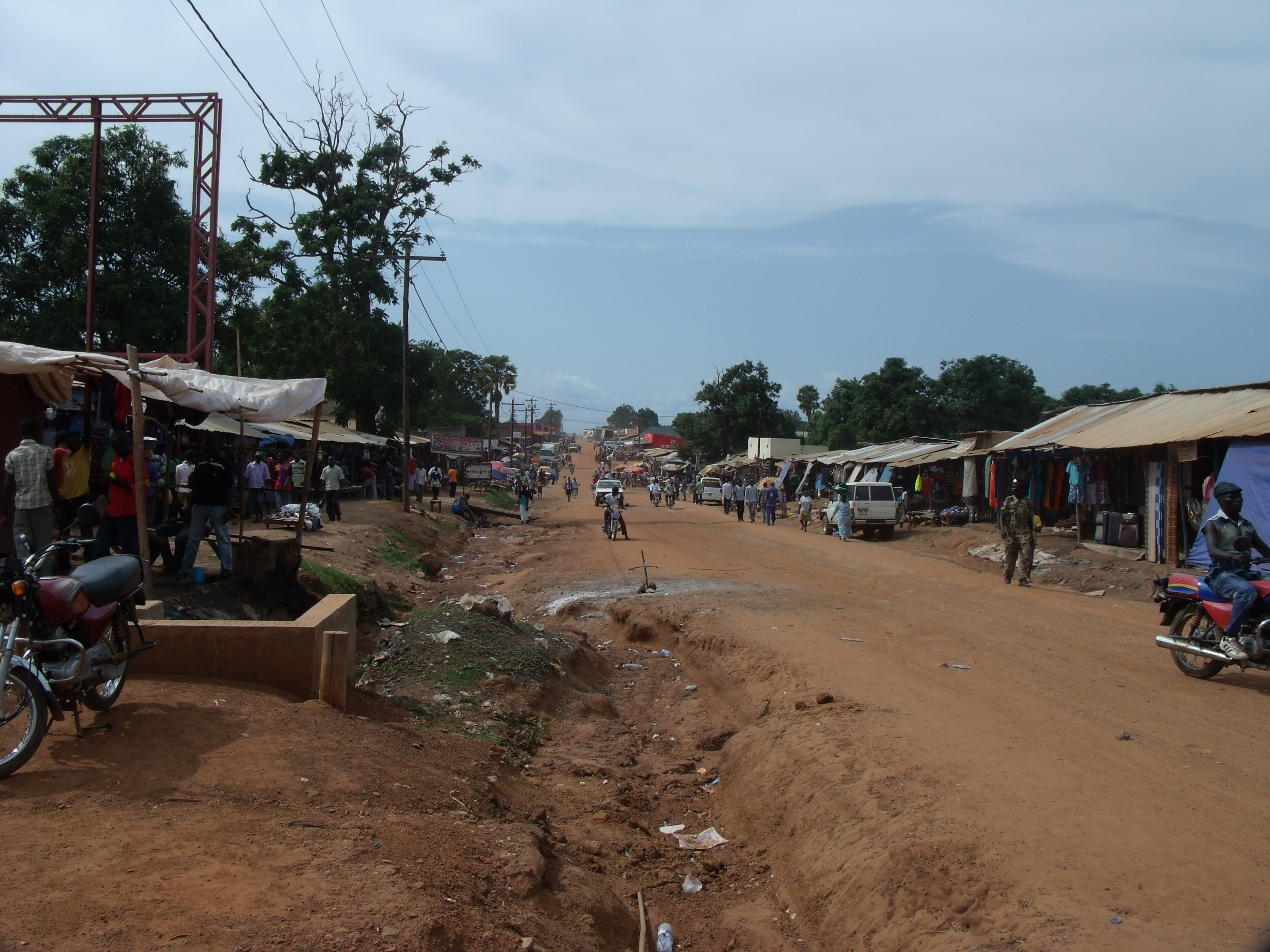 Photo taken by Rahul Ingle, May 2012